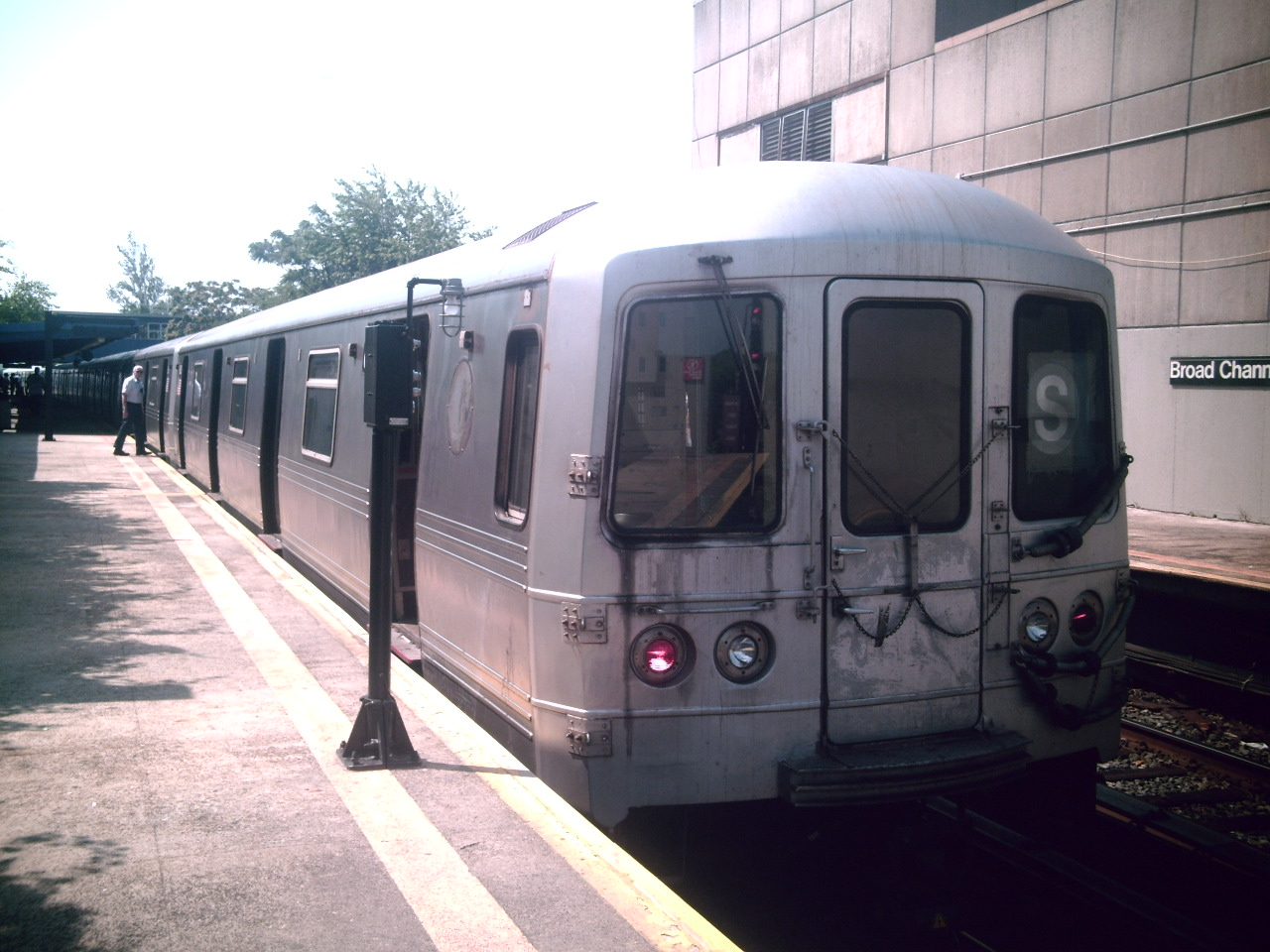 Rockaway Park Shuttle train of R46s at Broad Channel